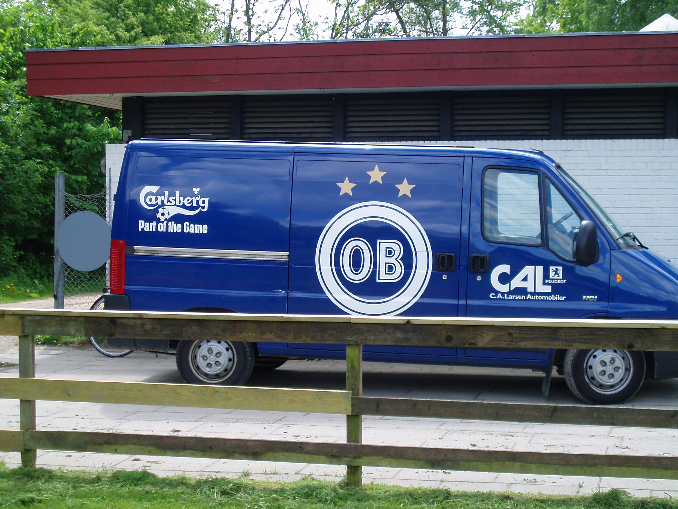 Sponsored Peugeot Boxer at Danish soccer team OB's training facilities in Odense.